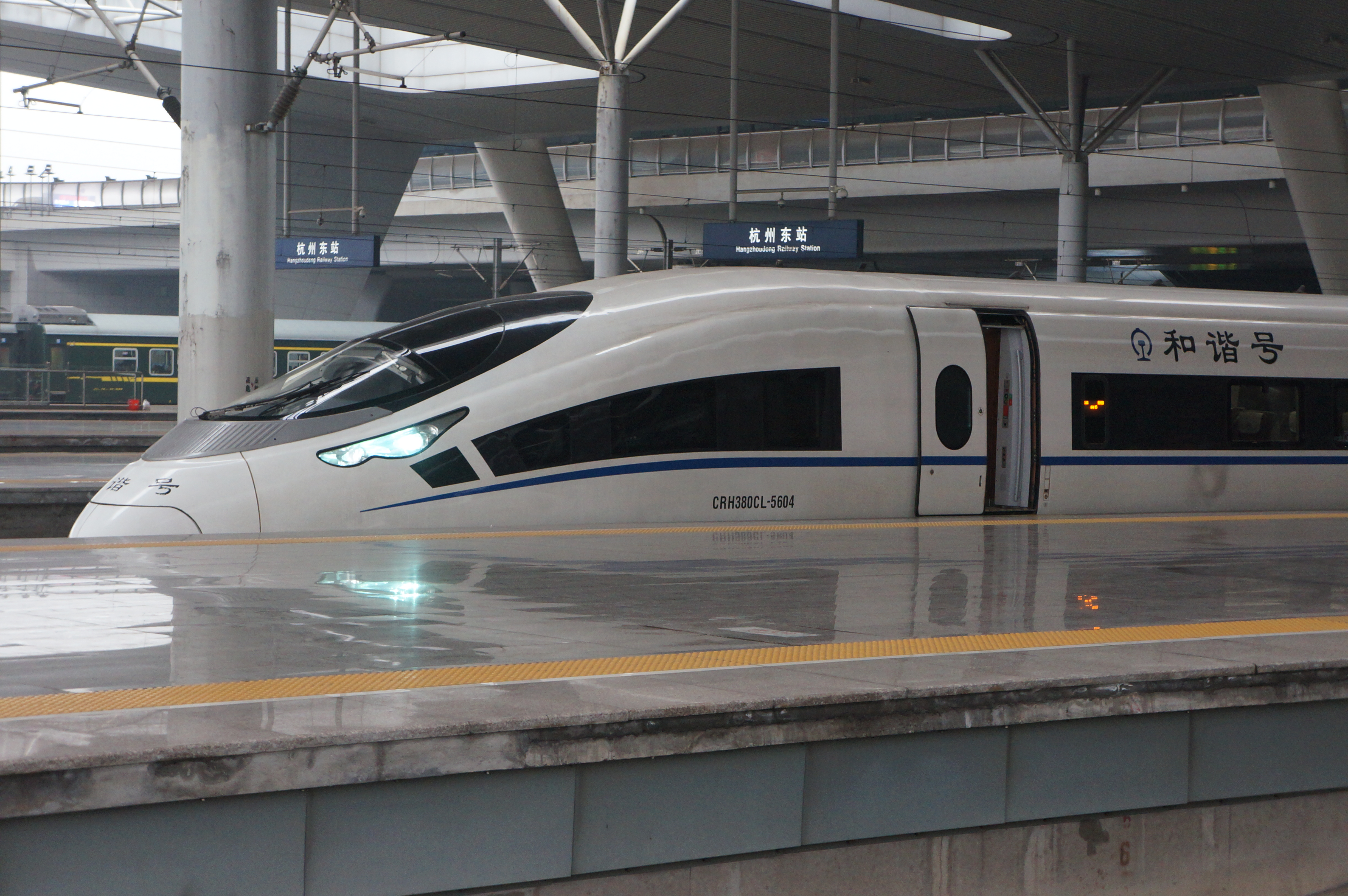 201812 CRH380CL-5604 as G44 at Hangzhoudong Station